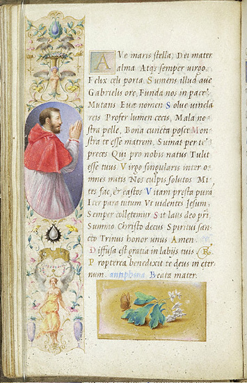 Farnese hours. M.69, fol. 46v. With portrait of Alessandro Farnese, its 1st owner